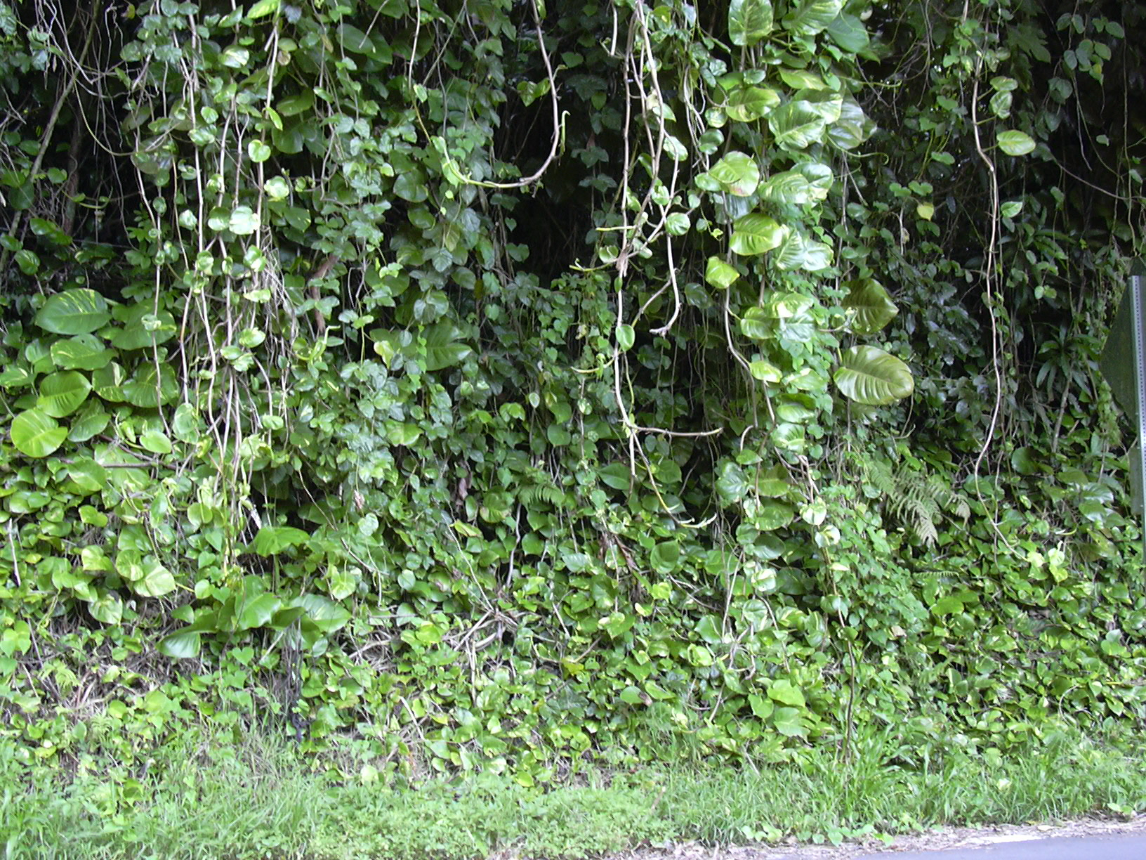 Epipremnum aureum (habit). Location: Maui, Hana Hwy